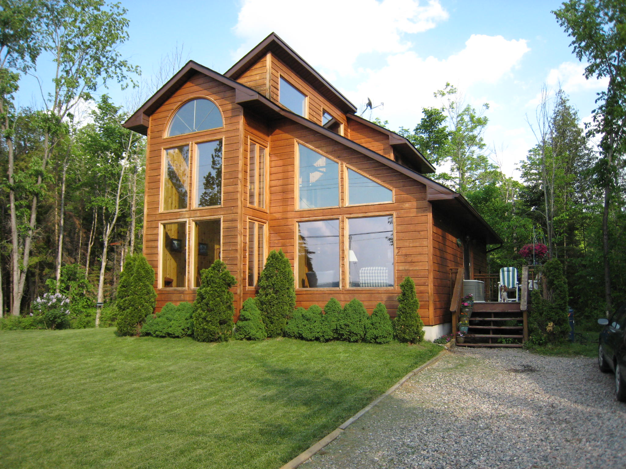 Contemporary Paudash Cottage. Constructed: May-September, 2000. Architects: Living Design Associates, Vancouver, Washington. Consulting Engineers: M.B. Finney, Ltd., Lindsay, Ontario. Craft Builder: Rob Lonergan Contracting, Paudash Lake, Ontario. Construction: Post and Beam, including interior loft, with native White Cedar exterior and native White Pine interior. Windows: Multi-glazed, Ultra "R" Polar by Bonneville, with Low-E Film and Argon Fill. All non-fixed windows are locking casement type to prevent heat leakage. HVAC: The building is air tight and super insulated, including exterior foam around the full 8 foot basement, with the air exchange and humidity controlled by a powered Van-EEE Heat Recovery Ventilation System, with a high efficiency gas furnance and hot water system, a high efficiency gas fireplace, as well as a high efficiency electric air conditioning system. Infrastructure: Modern filter-bed type Septic System by Gary Davis Contracting, Paudash Lake, Ontario, and Well and Water System by Earl V. Marquardt and Son, Inc. Palmer Rapids, Ontario. Site Preparation: Grading, Filling, Excavation, Drainage, and Driveway by Bob Donovan Excavating, Bancroft, Ontario.